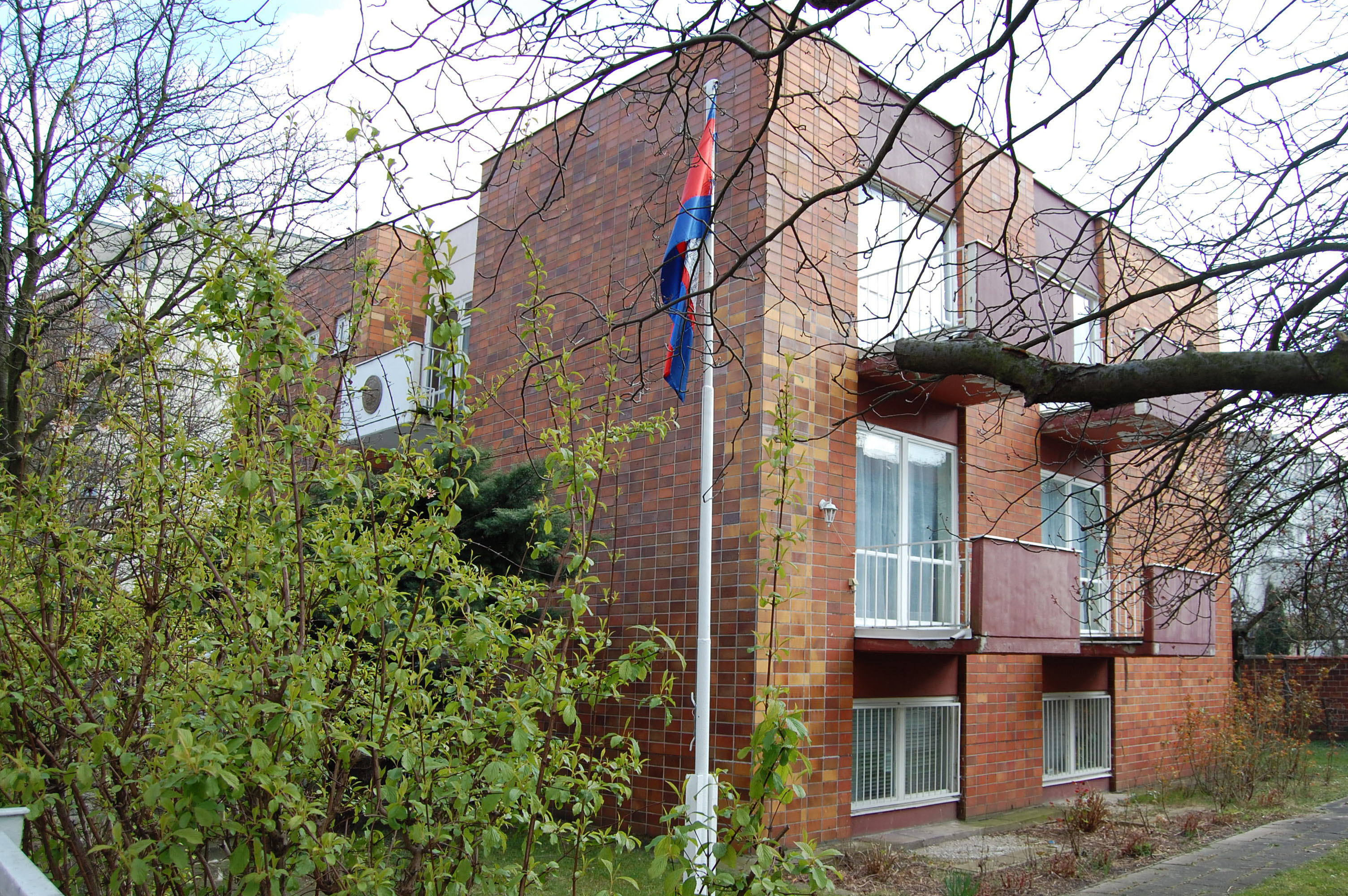 Embassy of Cambodia in Berlin